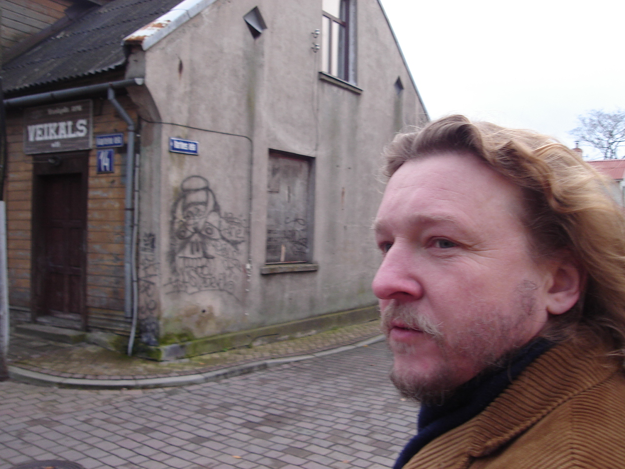 Lithuanian writer and journalist Arūnas Spraunius in Ventspils, Latvia